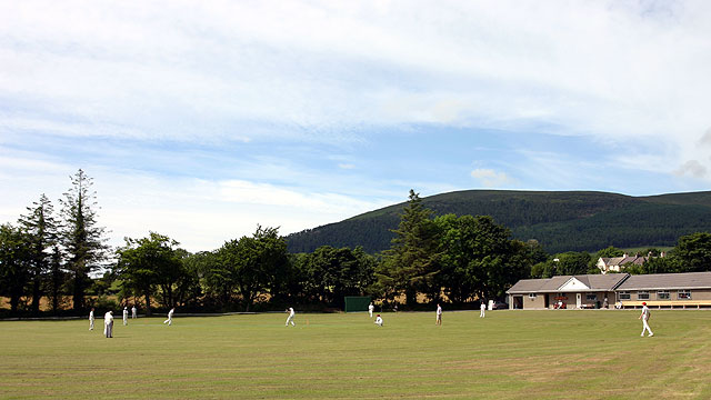 Crosby. A cricket match in action on the sports field at SC325793.